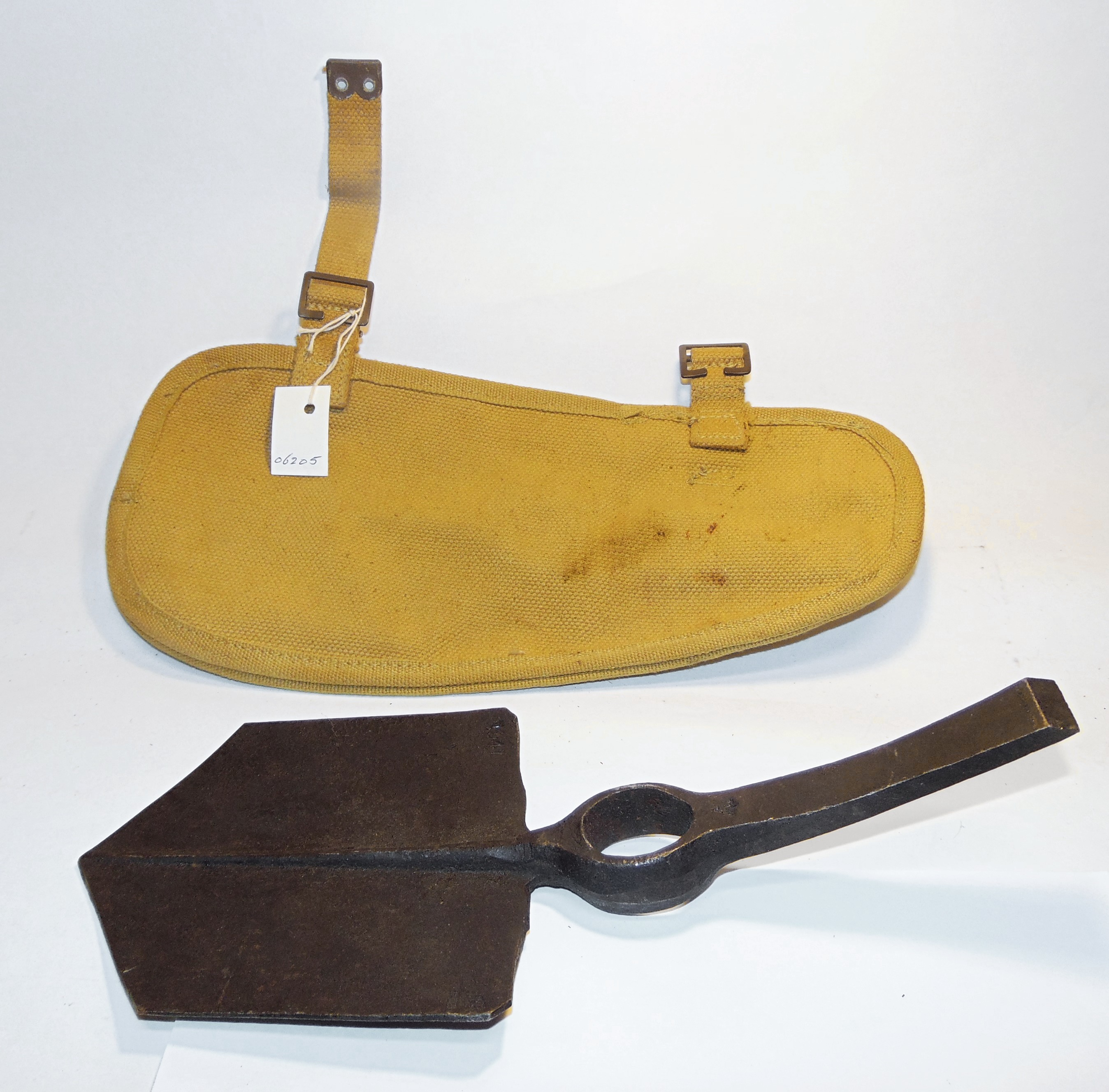 Spade, British military standard issue entrenchment tool, with loose shank and holder, 1941. Photographed in the collection of the National Liberation Museum 1944-1945, the Netherlands, archive number 062.005.